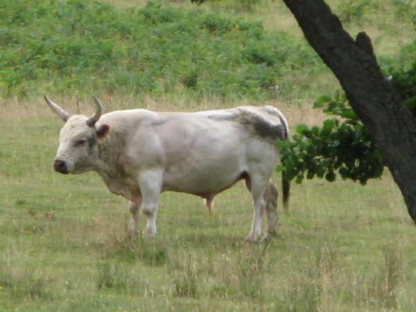 Chillingham Bull. The Chillingham Cattle are wild and have interbred for many years. An Alpha male will be the king of the herd for about 3 years, and bulls regularly challenge each other.